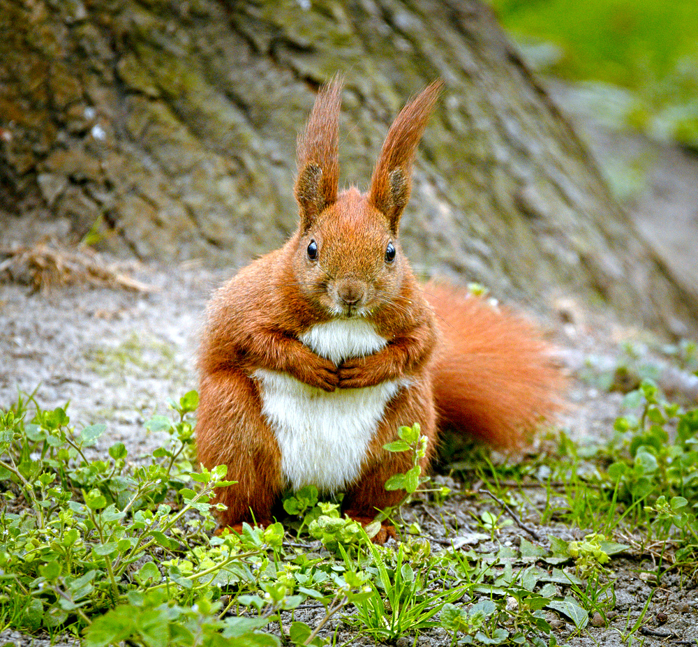 Squirrel (Sciurus vulgaris) standing in front of a tree and looking at the camera.